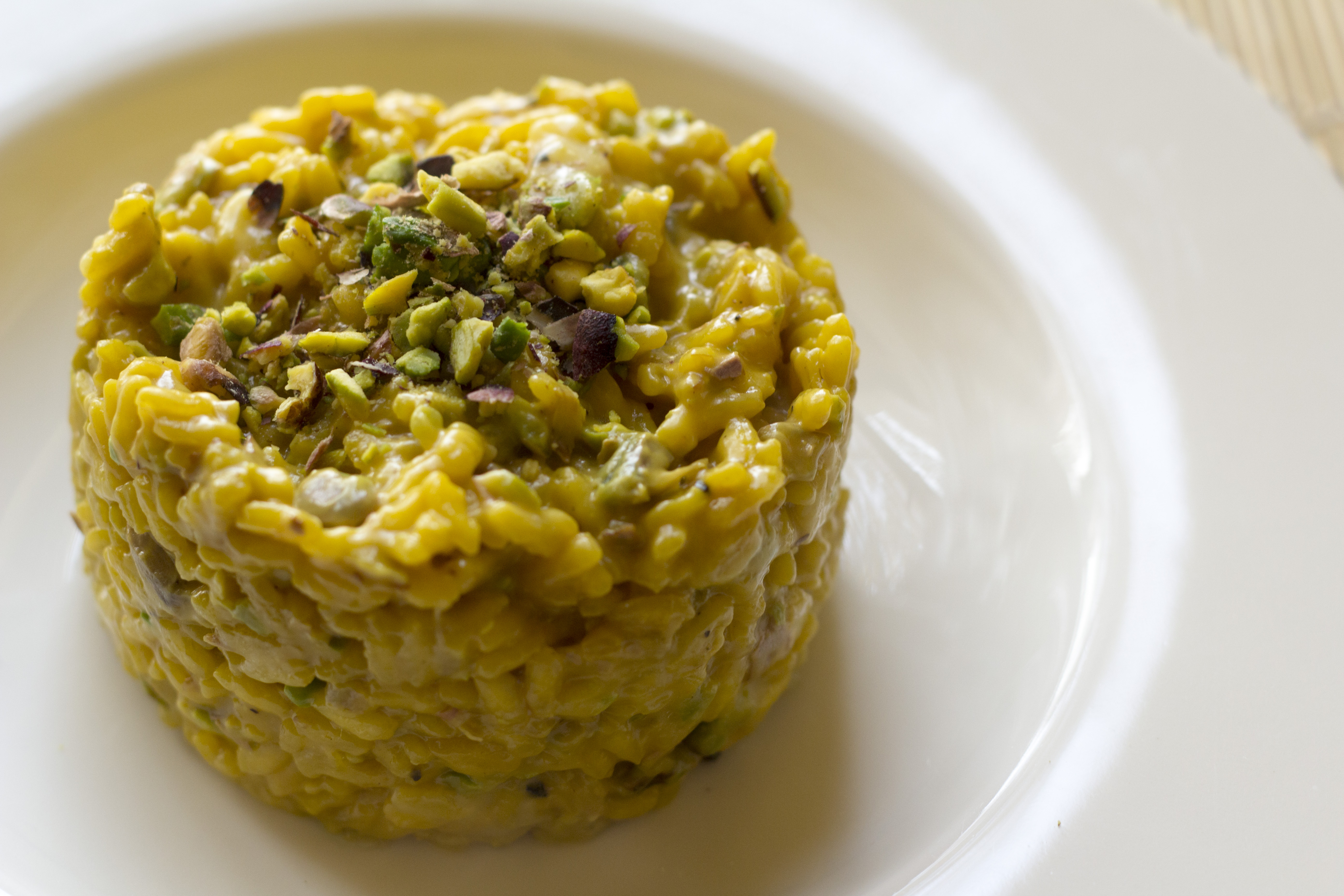 Risotto saffron & pistachio nuts (Recipe in italian with translation available: )